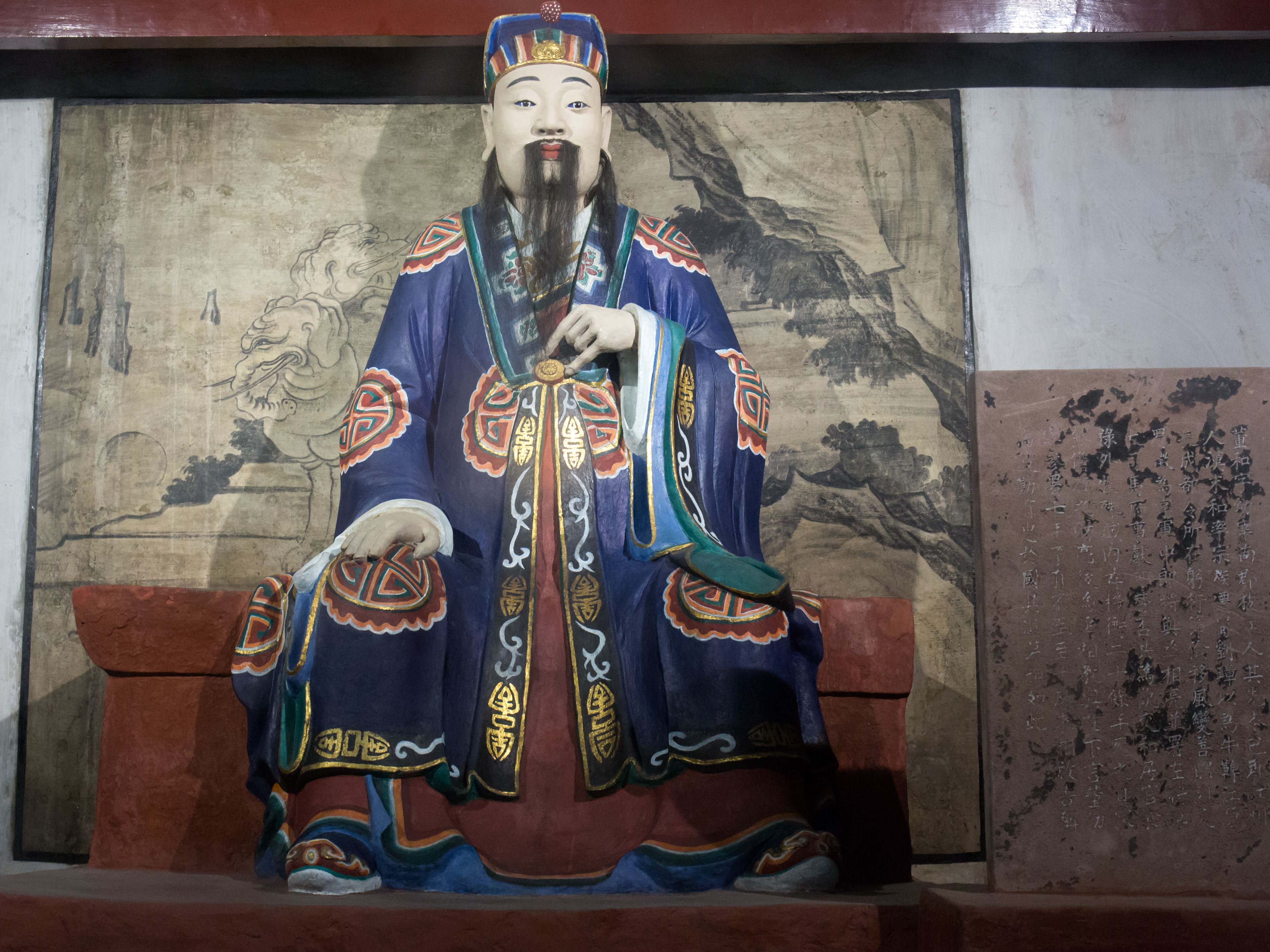 Dong He (董和)